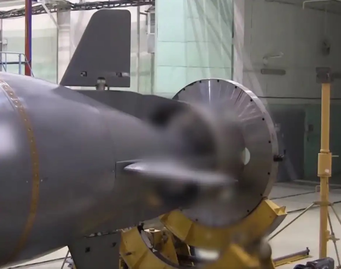 Screenshot from Russian DoD video about Status-6